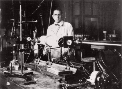 Fritz Houtermans (1903–1966) at Physical Institute of Göttingen University in 1927